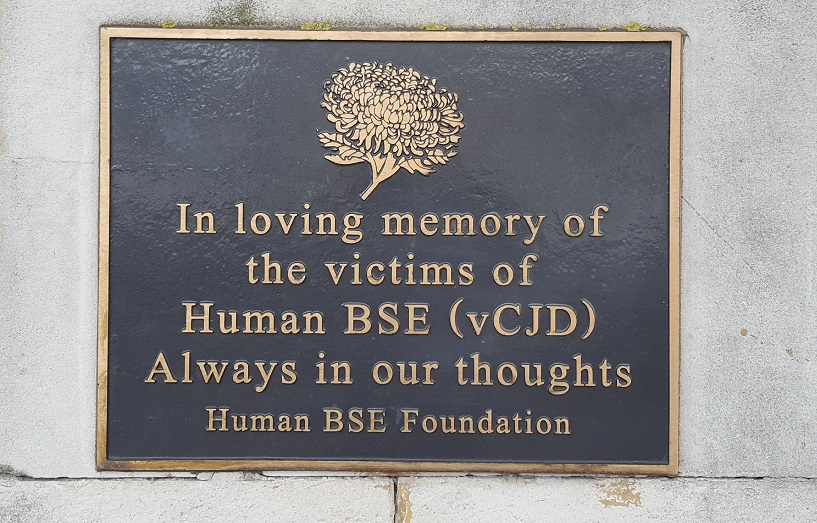 The memorial plaque to victims of CJD is located on the boundary wall of Saint Thomas' Hospital in Lambeth facing the Riverside Walk of Prince Albert Embankment. The plaque contains an embossed representation of a Chrysanthemum, a flower traditionally placed on graves to honour the dead. The inscription reads “In loving memory of the victims of Human BSE (vCJD). Always in our thoughts. Human BSE Foundation”